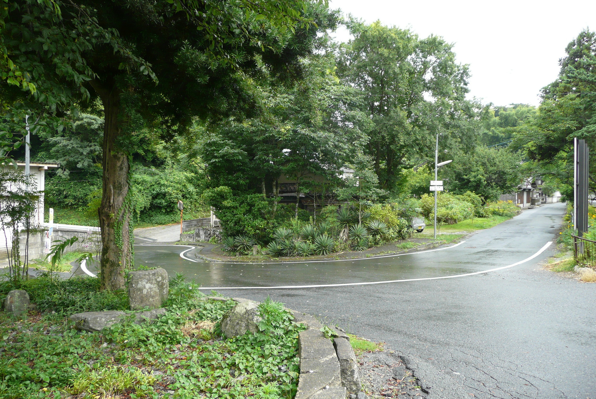 Saidosho Station plaza, Hita-Hikosan Line.